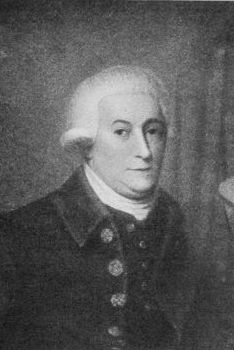 George Vancouver